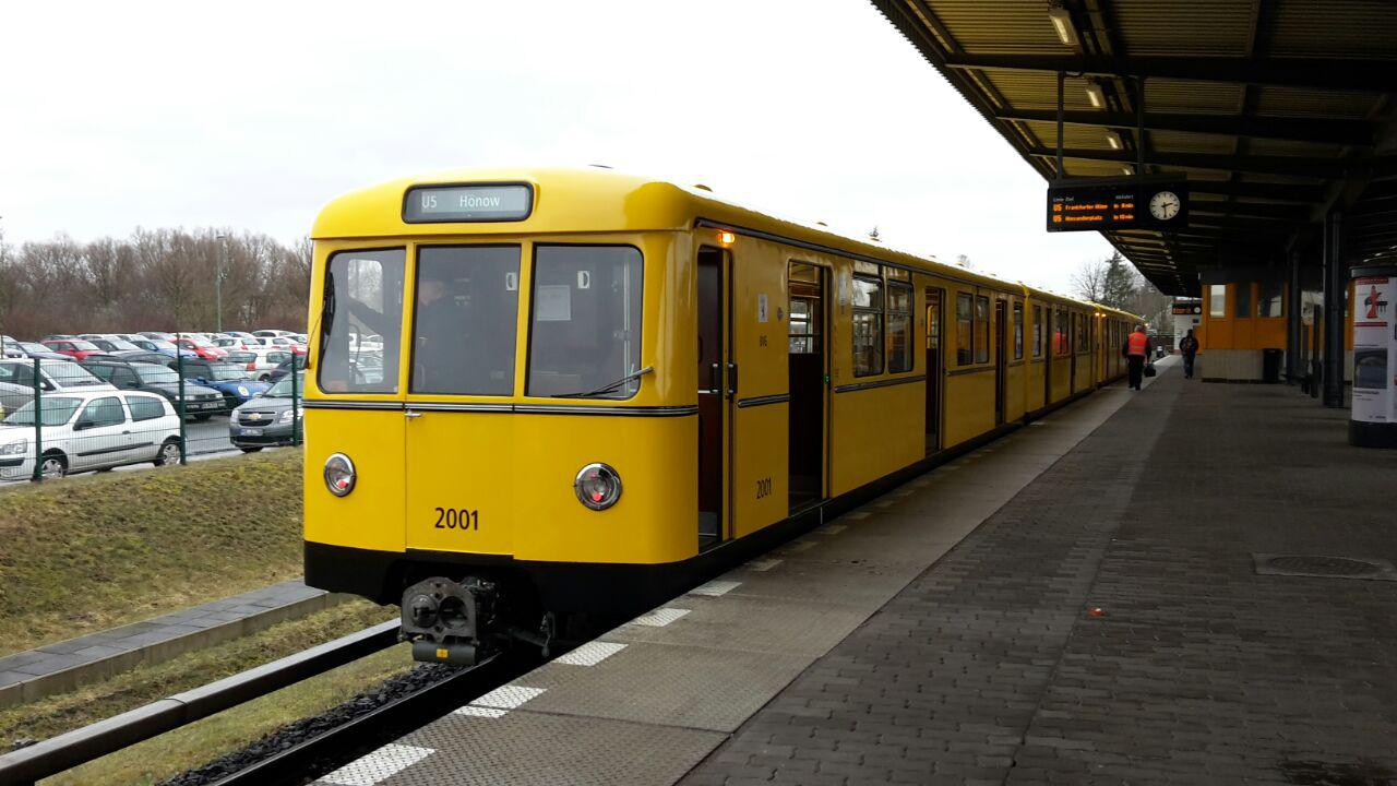 Modernized D55 train at Hönow U-Bahn station, Berlin